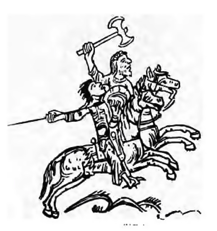 Pre-1066 illustration of Anglo-Saxon warriors on horseback.